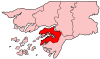 Map of Guinea-Bissau showing Quinara region.